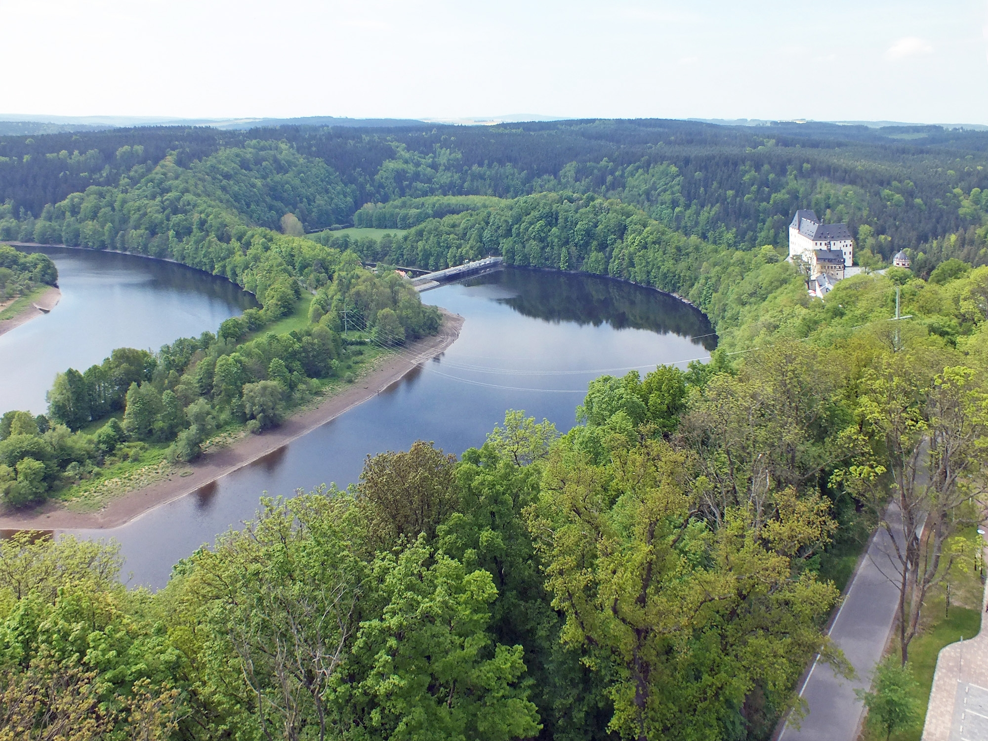 Burgkhammer reservoir seen from Saaleturm in Burgk